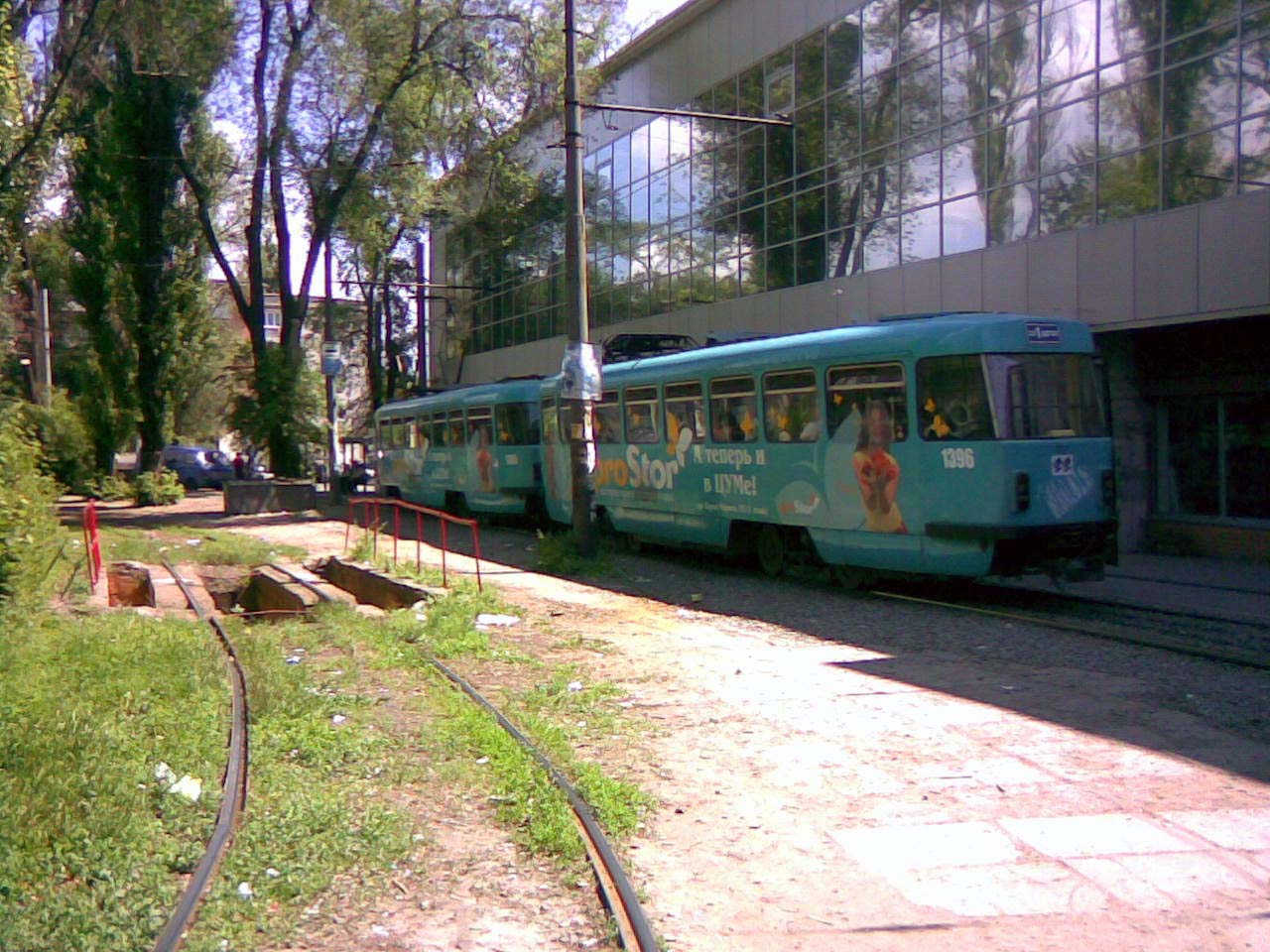 Тупик 1-го трамвая / Terminal stop of tram No. 1